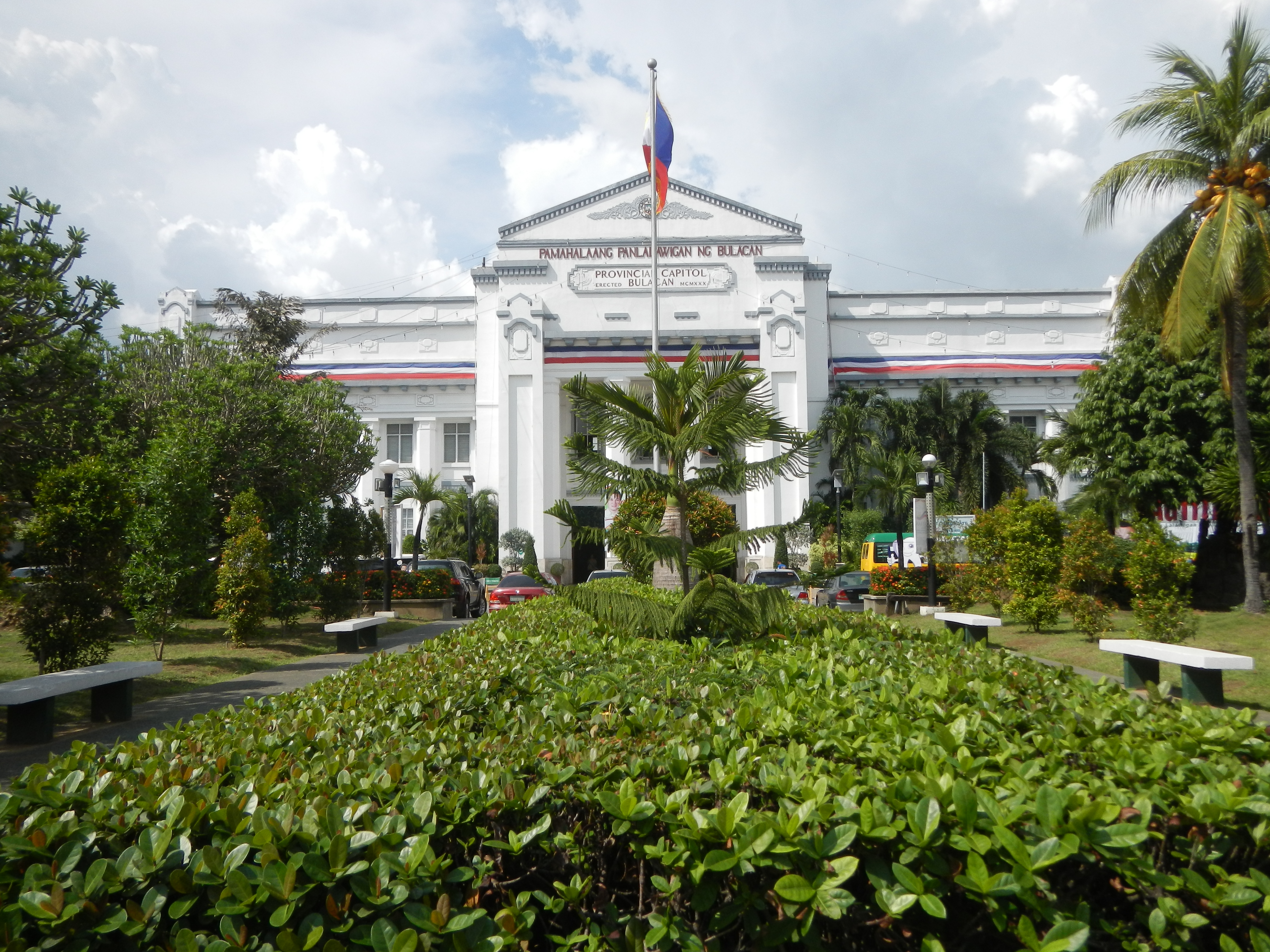 Bulacan Military Area Memorial Park (Encounter vs Enemy, Main Facade, Bulacan Provincial Bulacan Military Area Memorial Park, Encounter, Bulacan Military Area Troops vs Enemy, Marker, July 4, 1952 by Bulacan Governor Alejo S. Santos Bulacan Military Area, Main facade, Bulacan Provincial Capitol, including therein the Marcelo H. del Pilar monument and Gregorio del Pilar Monument (in the Provincial Capitol Compound Complex in Barangay Guinhawa Malolos City, Bulacan, to and from Malolos Flyover (Malolos City, Bulacan) and Malolos City overpass bridge at and along MacArthur Highway or Manila North Road).